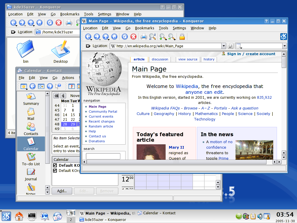 Screenshot of KDE 3.5